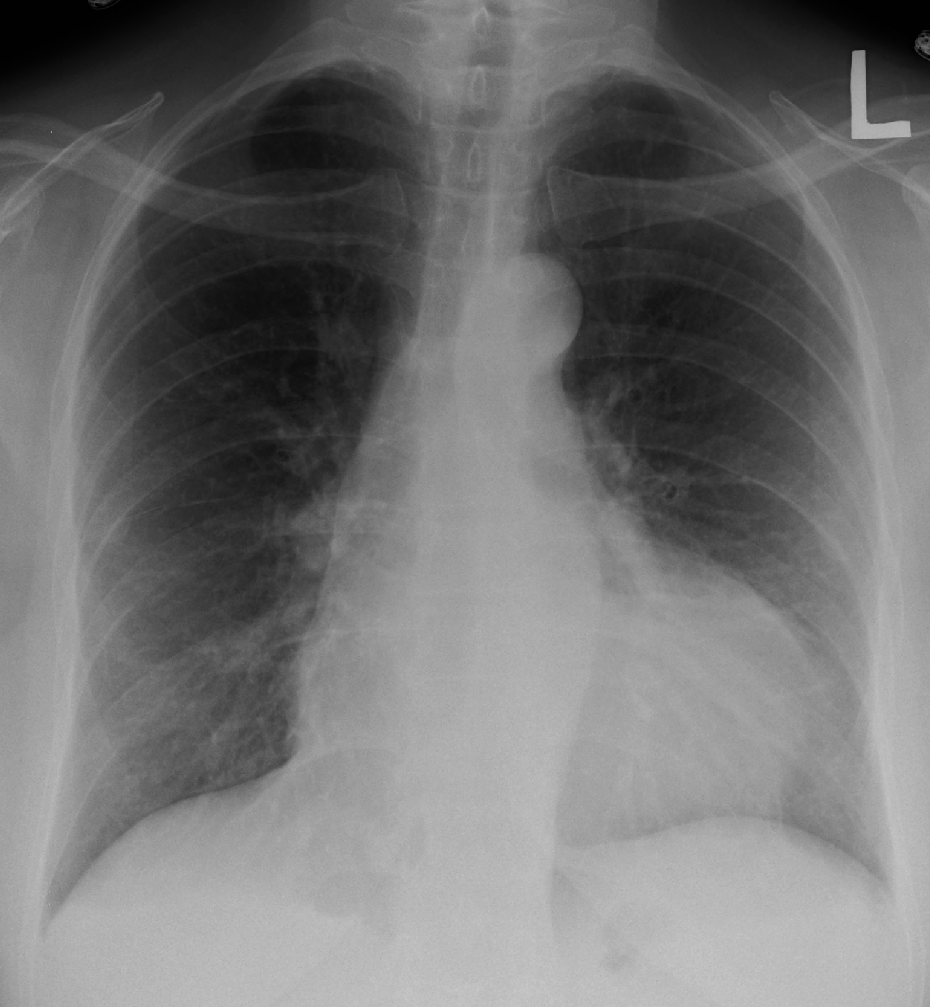 A person with a pericardial effusion